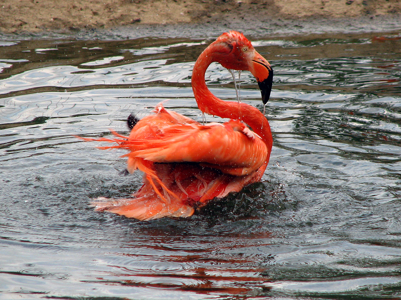 Bathing american flamingo (Phoenicopterus ruber) in the Moscow zoo.